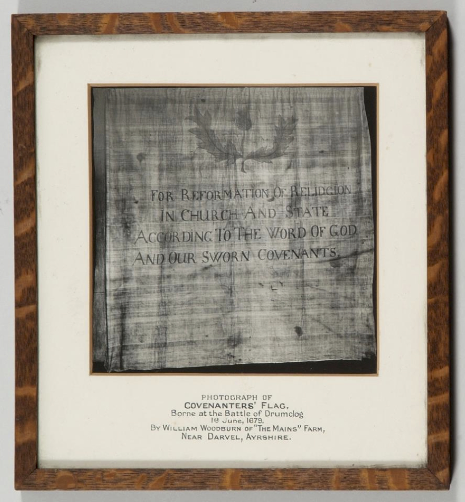 Photograph of the Covenanters' Flag carried into the Battle of Drumclog on June 1, 1679, by William Woodburn